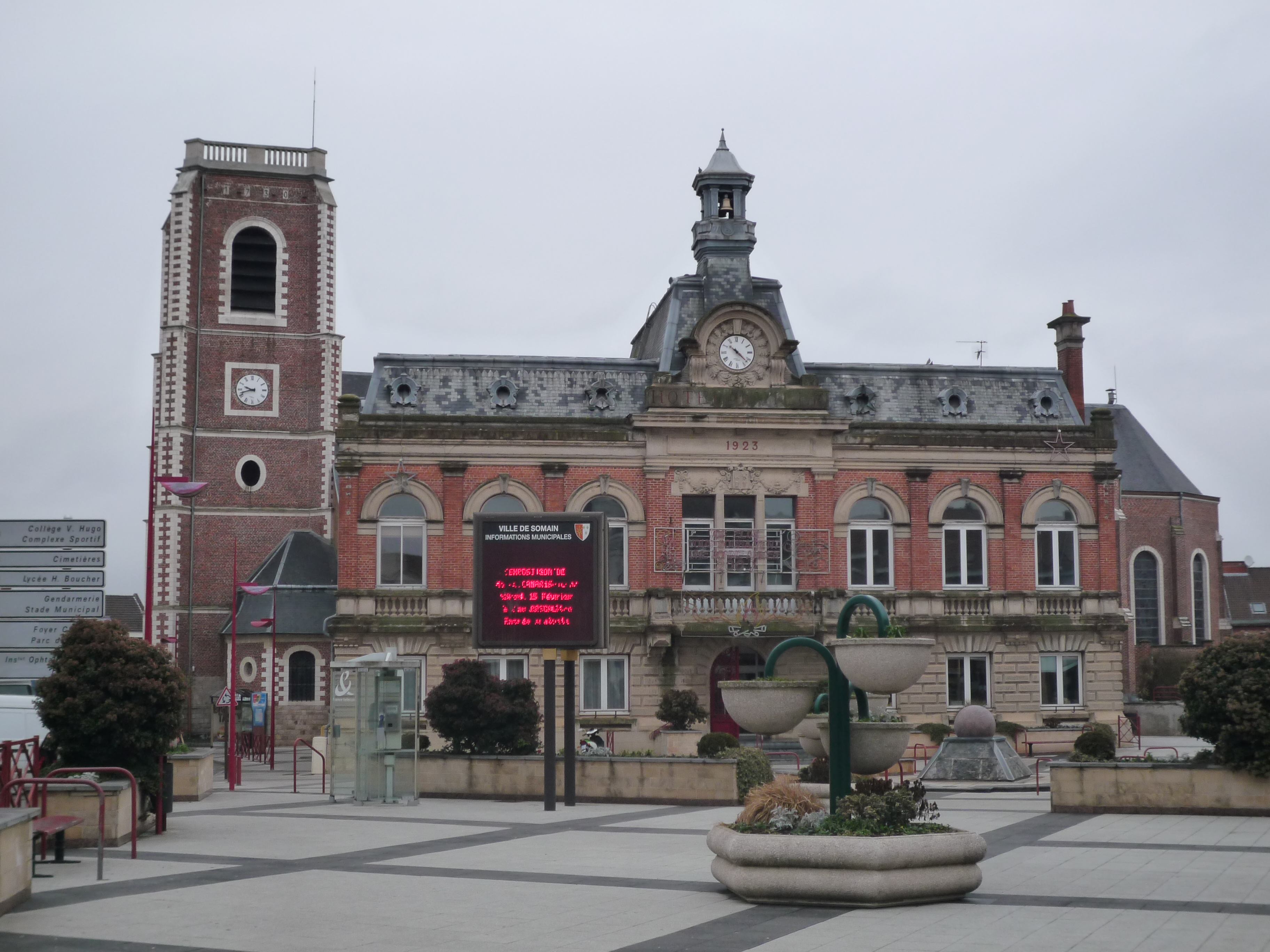 Depicted place: Q63197159